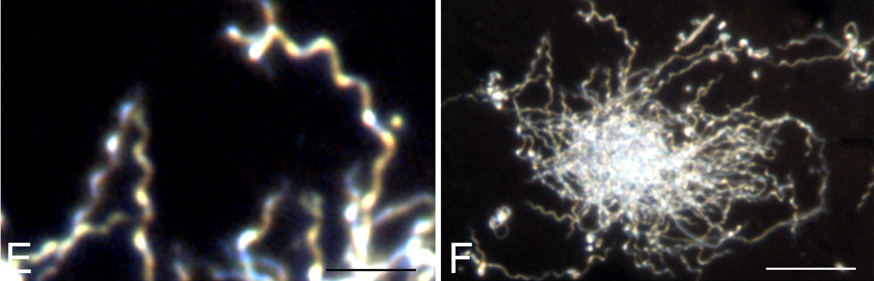 Original figure legend: Dark field microscopy images showing the typical spiral form (E) and colony formation (F) of Borrelia burgdorferi strain ADB1. Bars: E = 8 µm; F = 25 µm